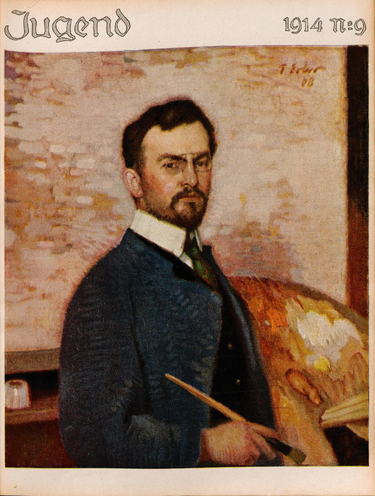 Fritz Erler - Selbstporträt von 1908 (auf dem Umschlag der Zeitschrift "Jugend", Heft 9, 1914)